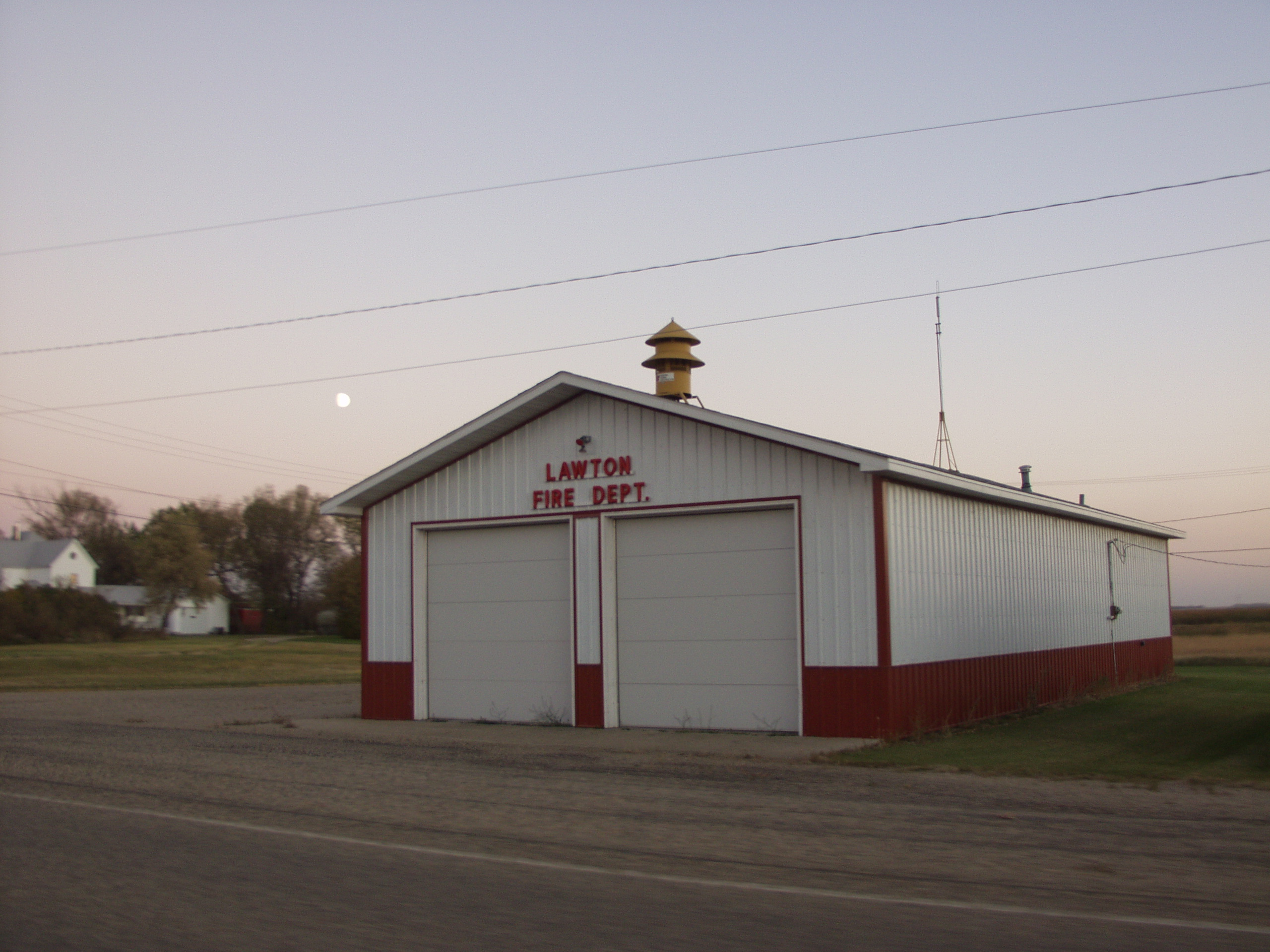 Lawton, North Dakota. From .Lawton, North Dakota